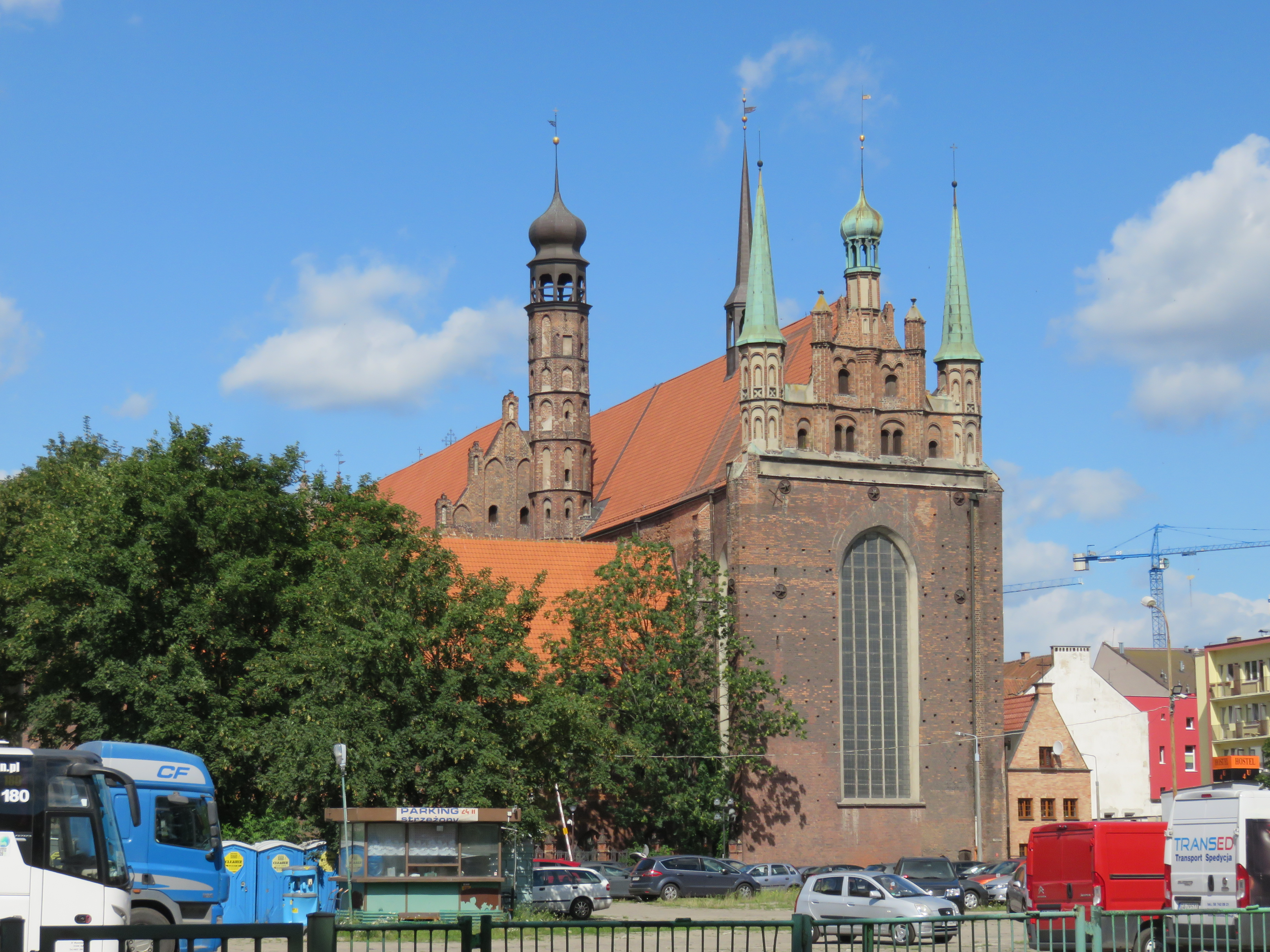 Holy Trinity Church in Gdansk